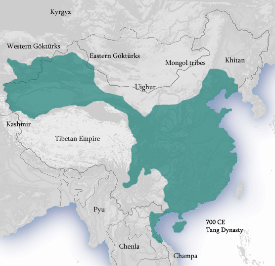 Tang Dynasty circa 700 AD. Derived from Territories_of_Dynasties_in_China.gif and East-Hem 700ad.jpg.